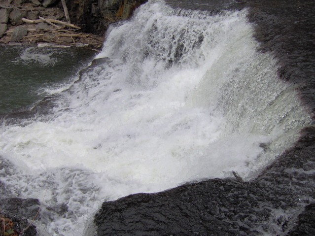 Big Falls, along the Duck River (Barren Fork) at Old Stone Fort State Archaeological Park near Manchester, Tennessee, located in the Southeastern United States. The Duck River's waterfalls and rapids led to the construction of numerous mills along its banks in the 1800s.